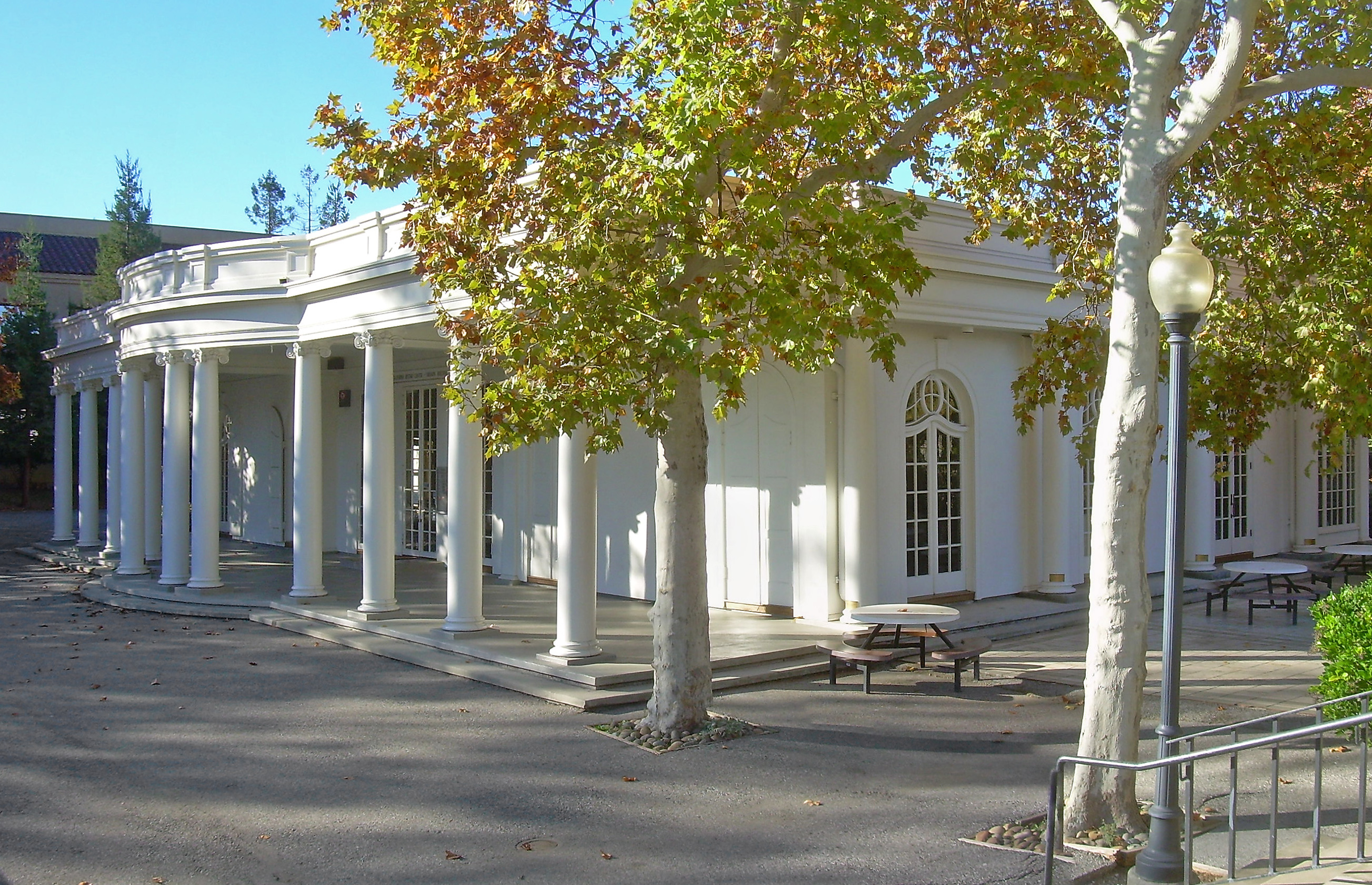 A historic home on the grounds of the De Anza College, in Cupertino, California. Listed on the National Register of Historic Places.